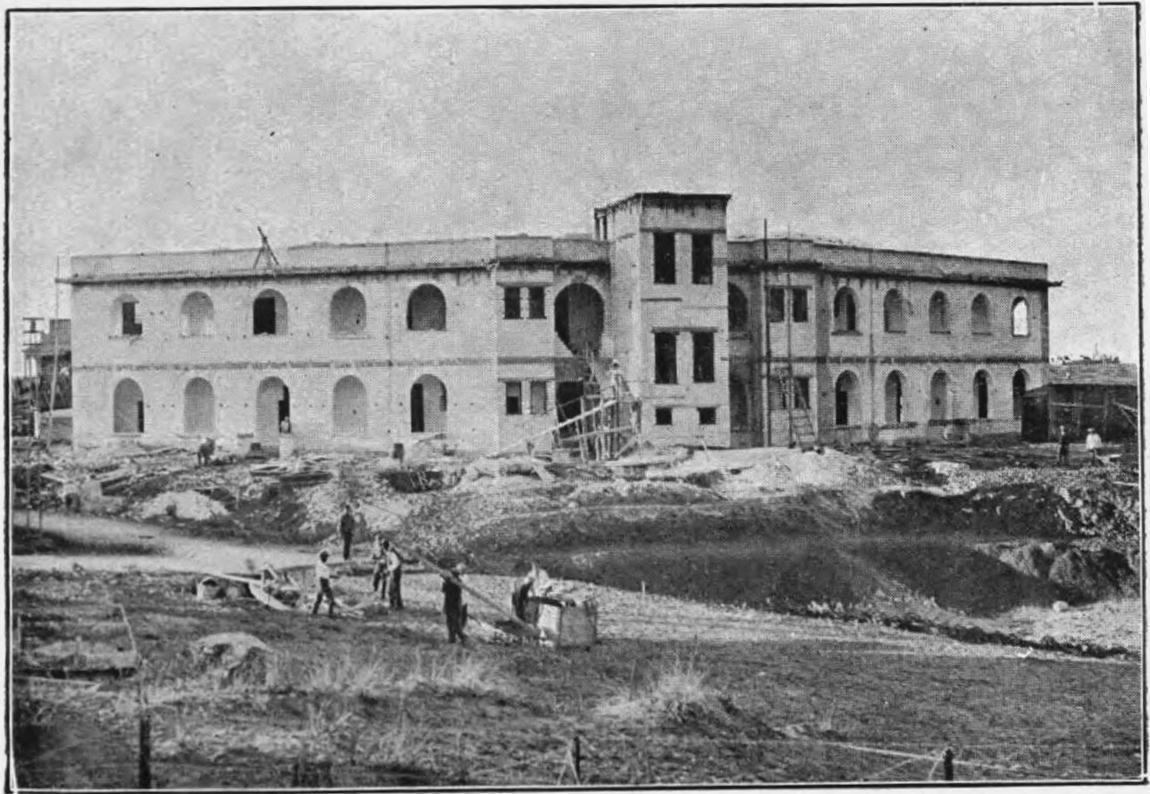 The Tel-Nordau School under construction. A photocopy of the 1926 Keren Hayesod booklet.